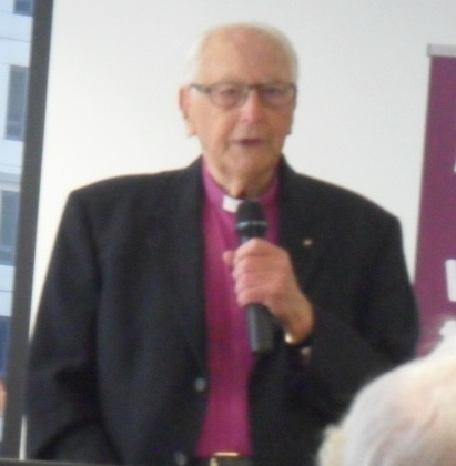 THE RIGHT REVEREND KEN SHORT